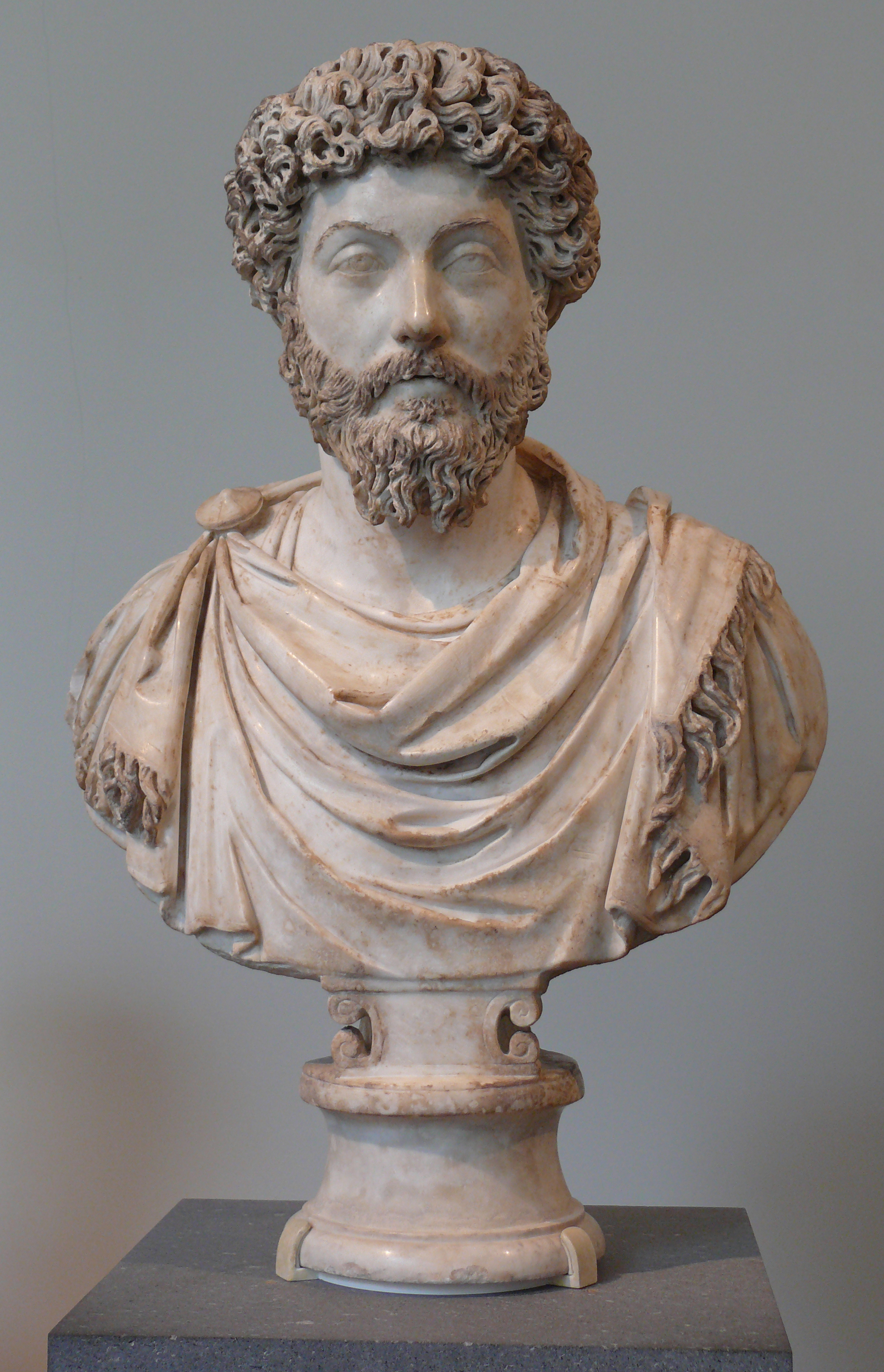 Bust of Marcus Aurelius in the Metropolitan Museum of Art, New York, NY. Marble Roman, Antonine period, AD 161-169 On loan from Musée du Louvre